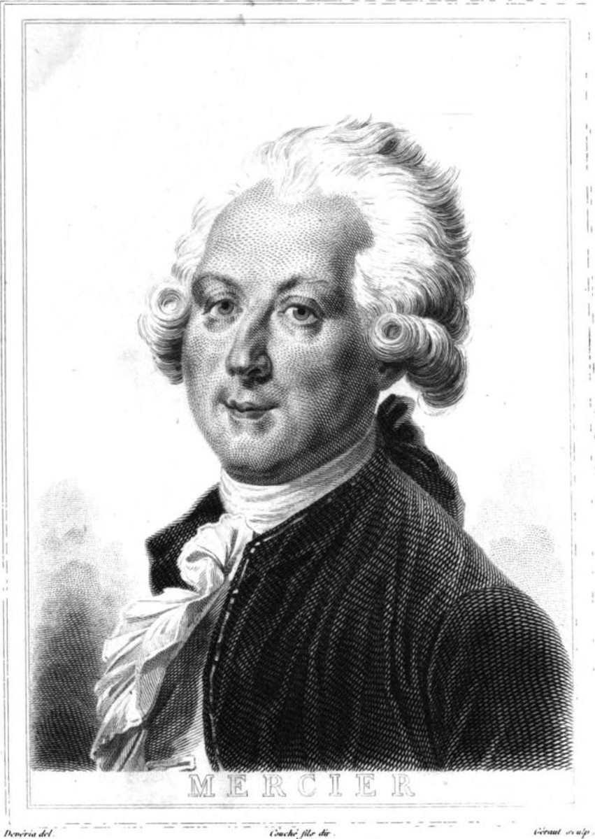 French writer Louis-Sébastien Mercier (1740-1814)